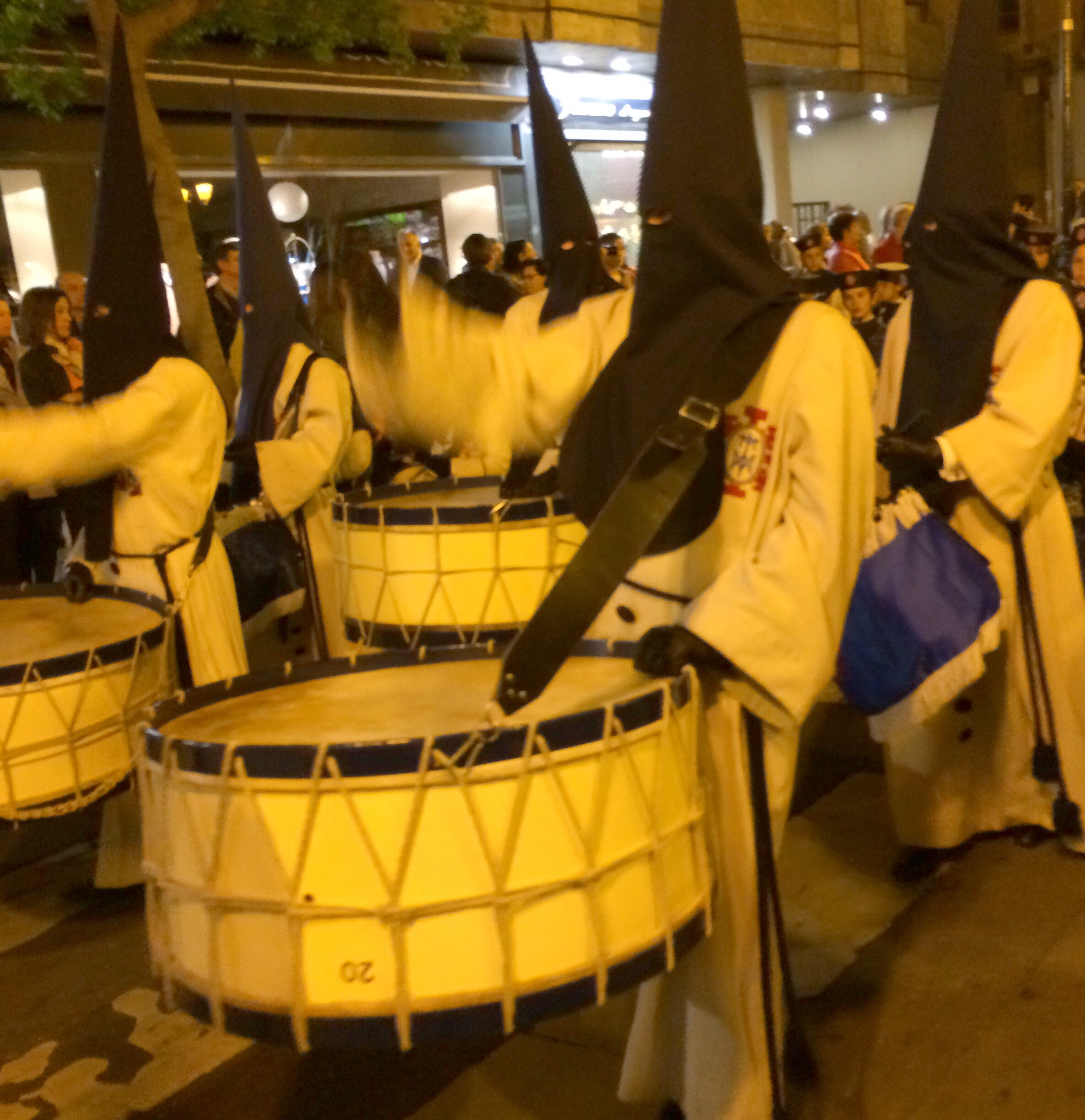 Holly Week procession in 2017 in Zaragoza (Spain)